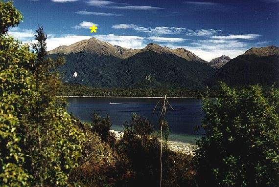 the Hunter Mountains from Frasers Beach Reserve Manapouri Township